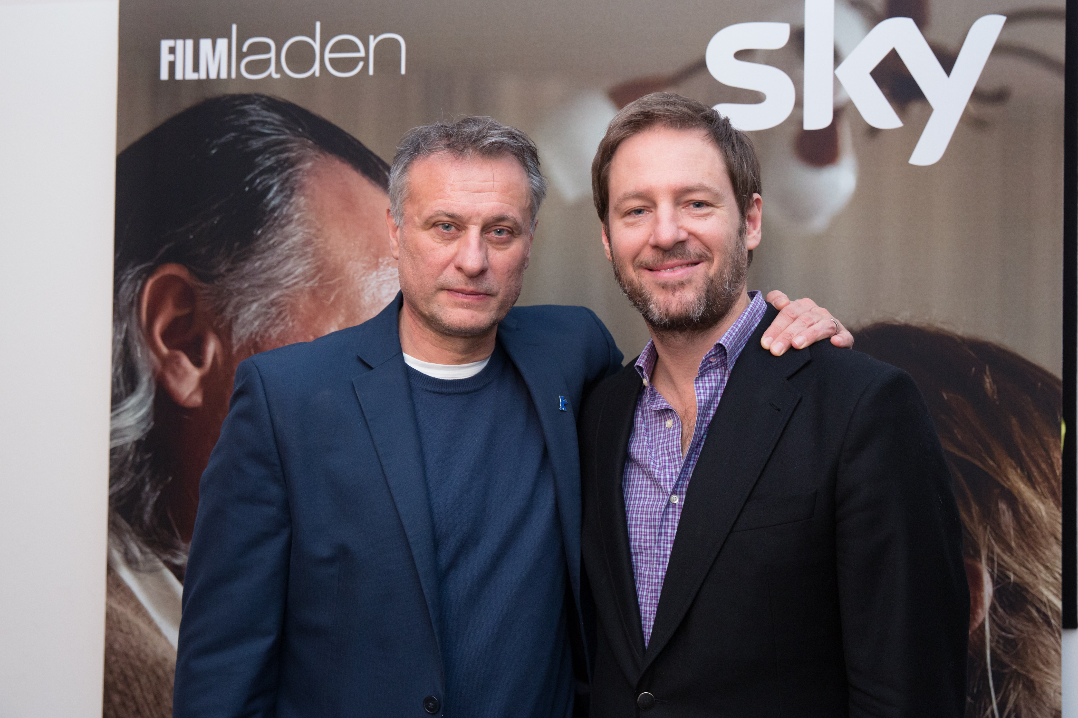 Actor Michael Nyqvist and director Florian Gallenberger at the Austrian premiere of Colonia at Votivkino in Vienna.